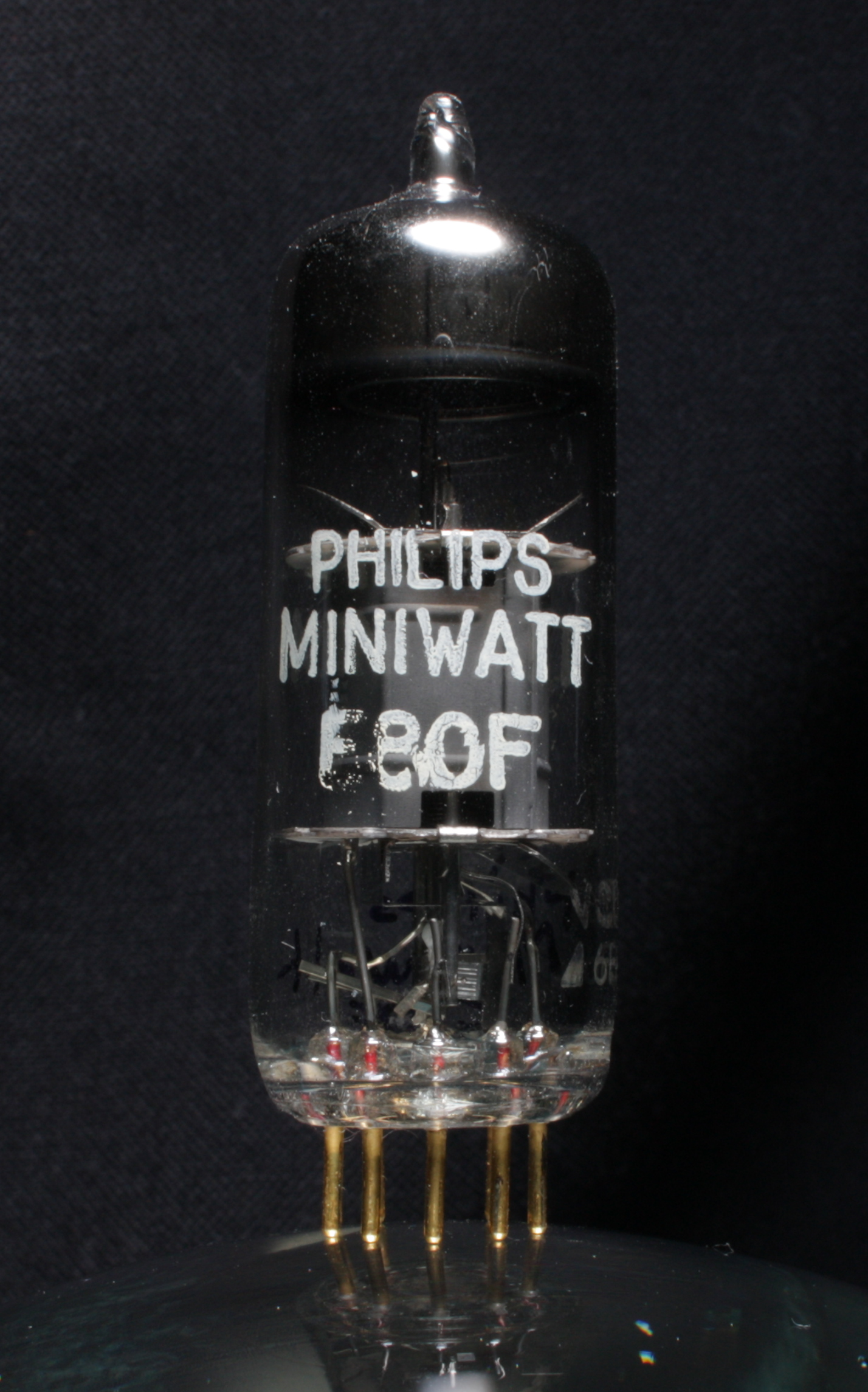 Philips Miniwatt E80F vacuum tube